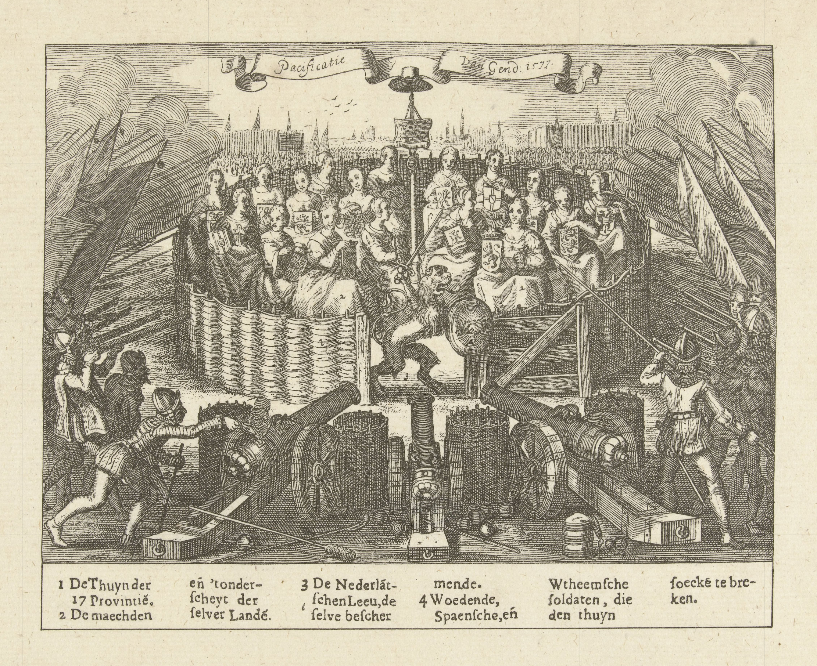 Reproduction of the allegory on the Pacification of Ghent, 1576